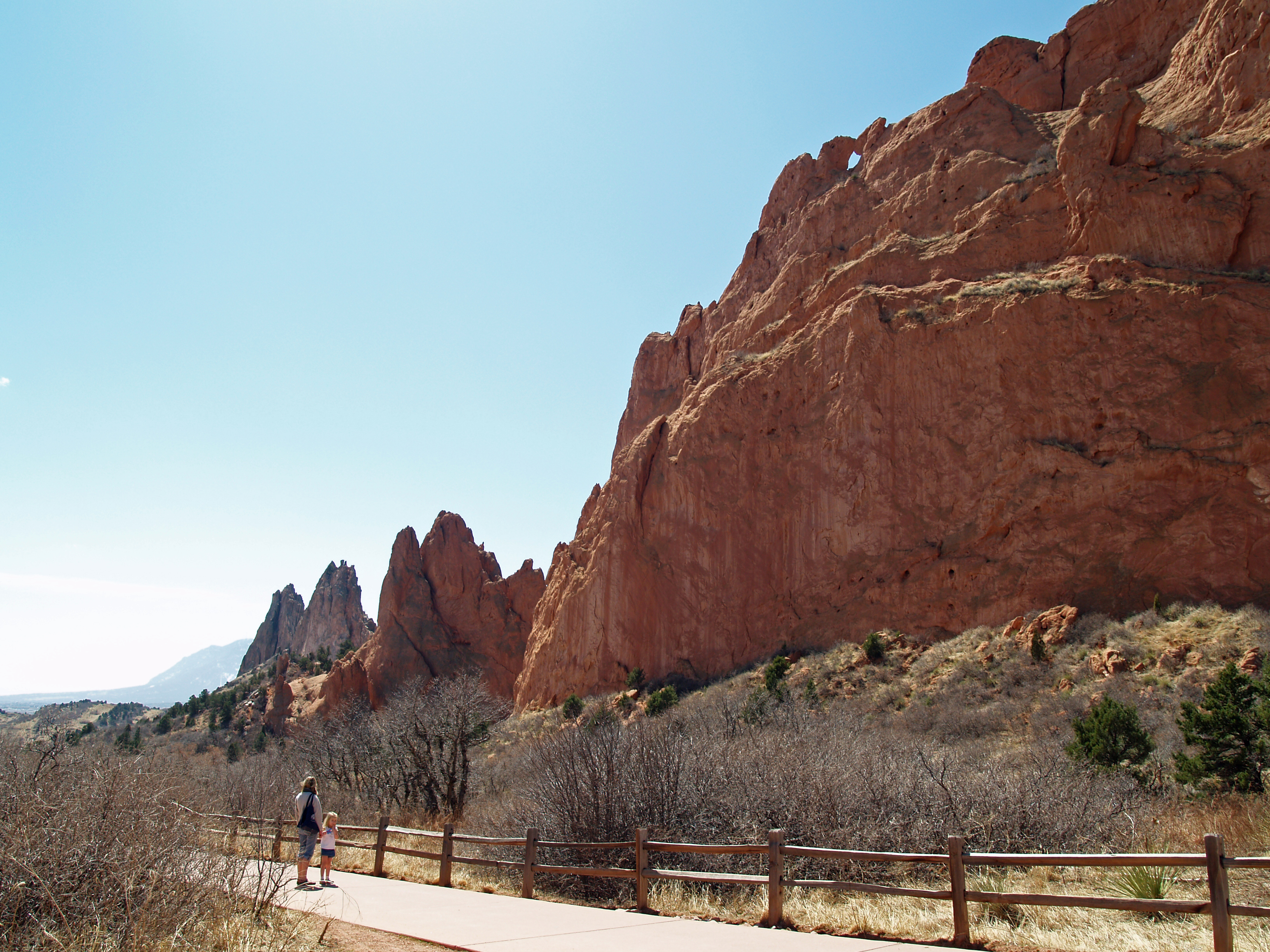 Garden of the Gods hogbacks in Colorado Springs.